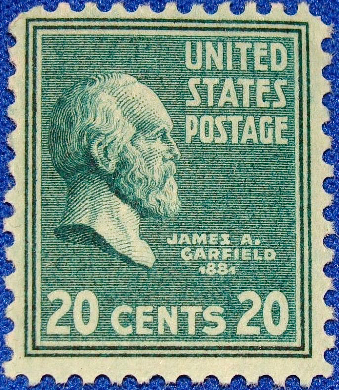 US Postage stamp: James Garfield, 1938 Issue, 20c